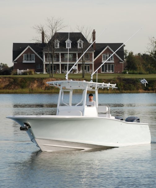 Southport 28CC, 2008